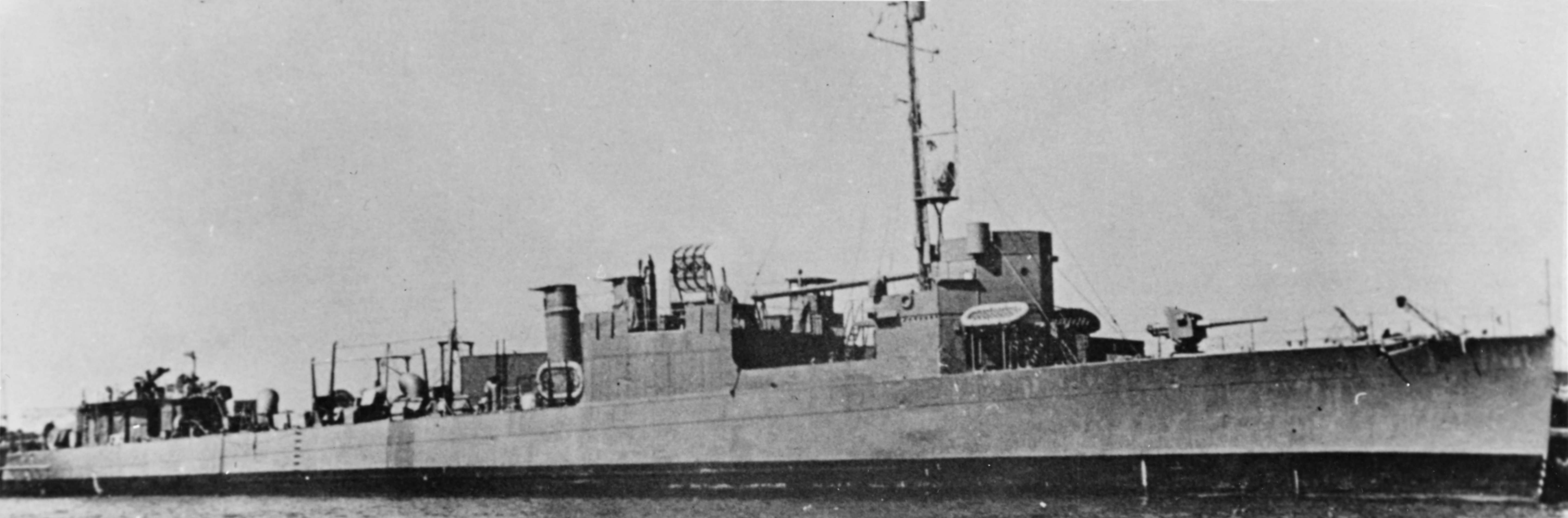 The U.S. Navy miscellaneous auxiliary USS Moosehead (IX-98), in April 1943. Note the Mark 4 (FD) radar antenna atop her midships deckhouse and the boom attached to her foremast. The 102 mm/50 gun on Moosehead's foredeck was later replaced by a 76 mm/50 gun. Moosehead was formerly USS Turner (DD-259).